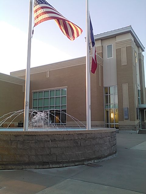 An photo of the Watuaga City Hall in Watauga, Texas. Taken on 24 March 2016 with an Kyocera HydroWAVE (Android 4.1).